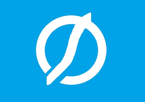 Flag of Minokamo Gifu